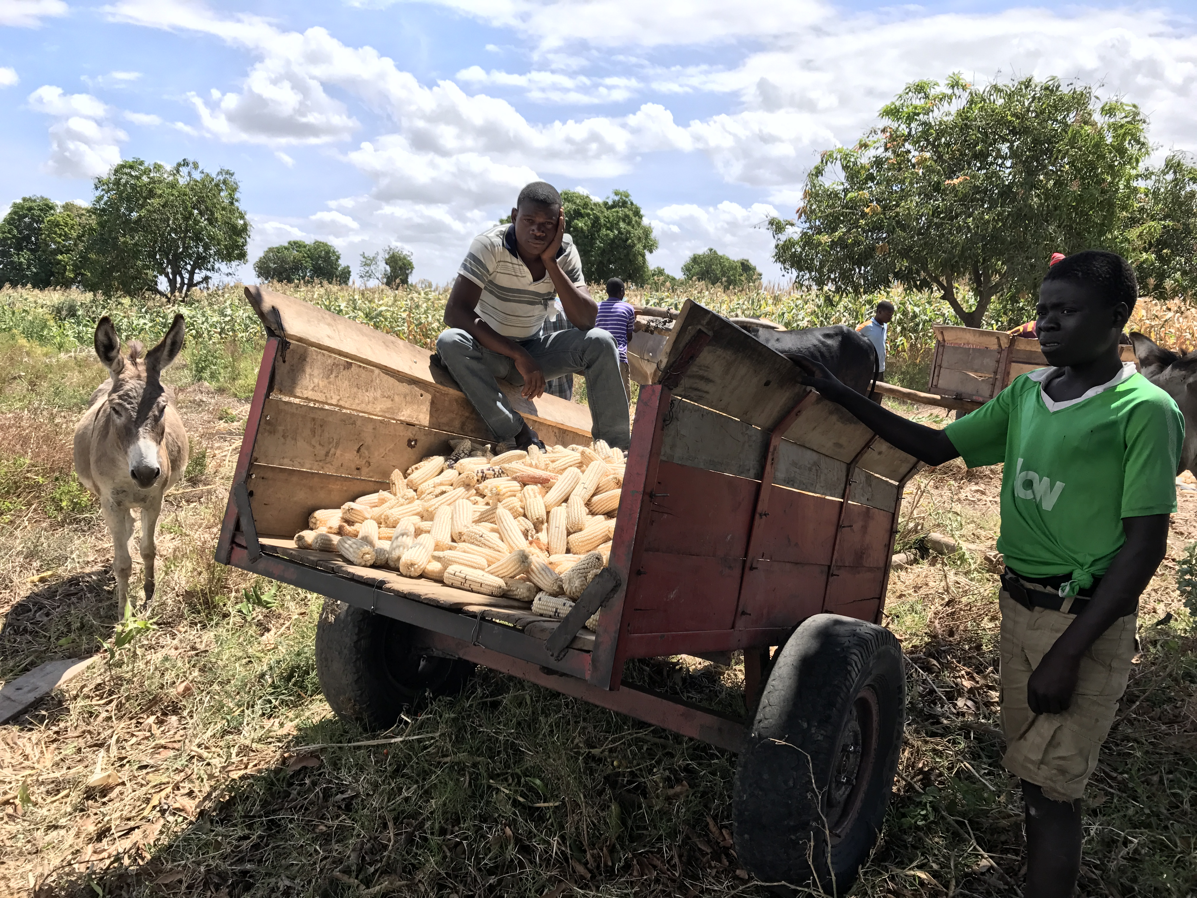 Farmers are harvesting maize in Chickhwawa district, Malawi. This maize is grown by using flood-water beneficially. Flood-farming is still unknown in the are but when spread it could improve the food supply of the country significantly. This is an image of "African people at work" from Malawi